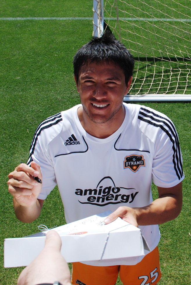 Brian Ching - After practice